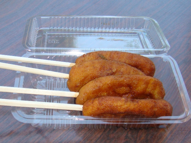 "Zeri Furai", one of the signature (?) junk food in Gyohda. It pronounces like "Jelly Fry" in Japanese English, but of course it's totally nothing to do with the "jelly" nor "fry" itself, as you can see in the picture.